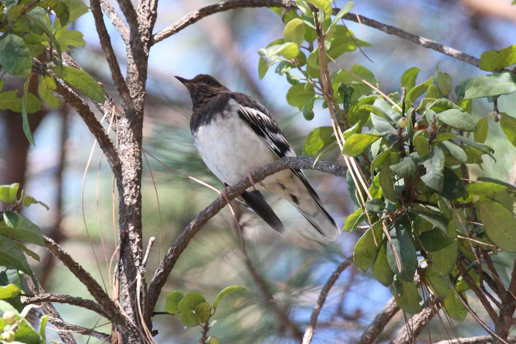 Aztec Thrush